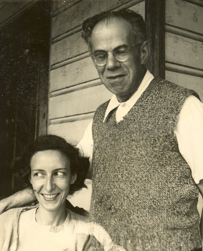 Eva Kayser (1911-1999) and Professor Rudolf Kayser (1889-1964), Literary Historian, Literary Critic, and Biographer